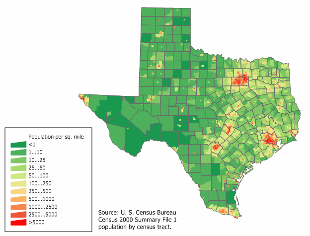 Texas state population density map based on Census 2000 data. See the data lineage for a process description.